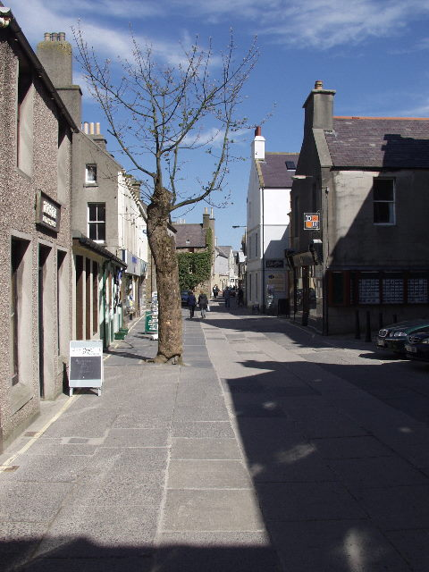 The Big Tree. Ironically known as The Big Tree, this stands alone in Albert Street. Anyone's guess how much longer it can survive........